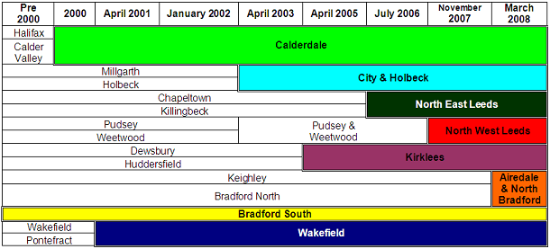 A grid detailing the former divisions of West Yorkshire Police